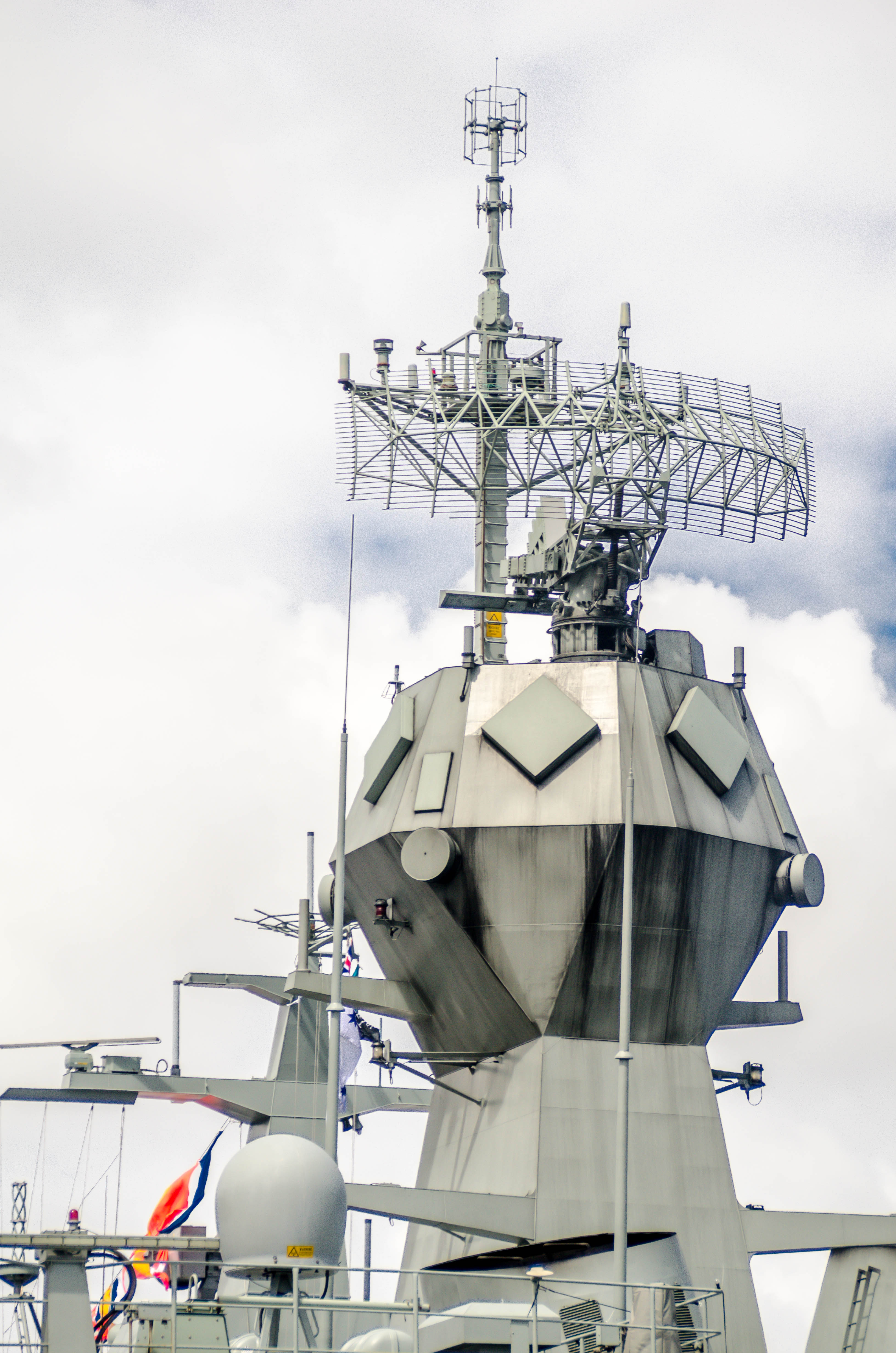 HMAS Perth (FFH 157) CEAFAR phased array radars